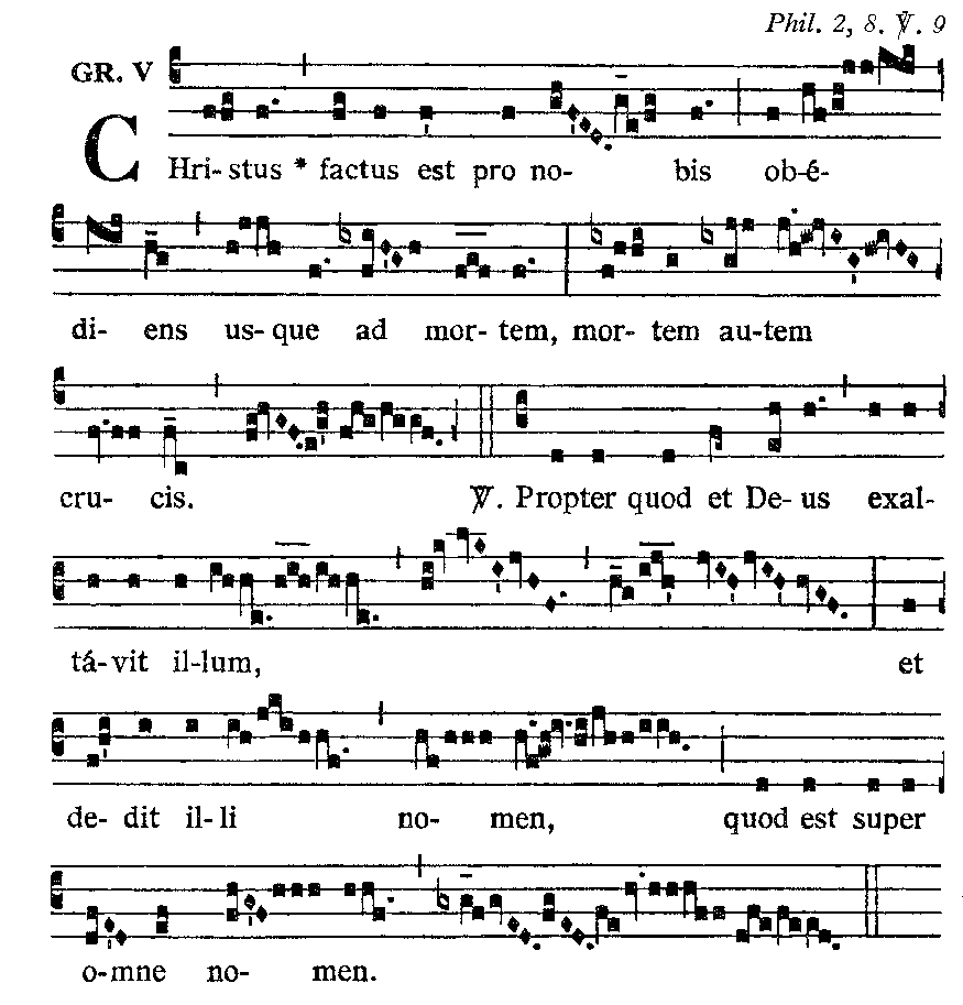 Gregorain Chant: Christus factus est, Dominica in palmis, Post lectionem II / Hebdomada sancta Scan from: Graduale Romanum, MCMLXXIX, p. 148